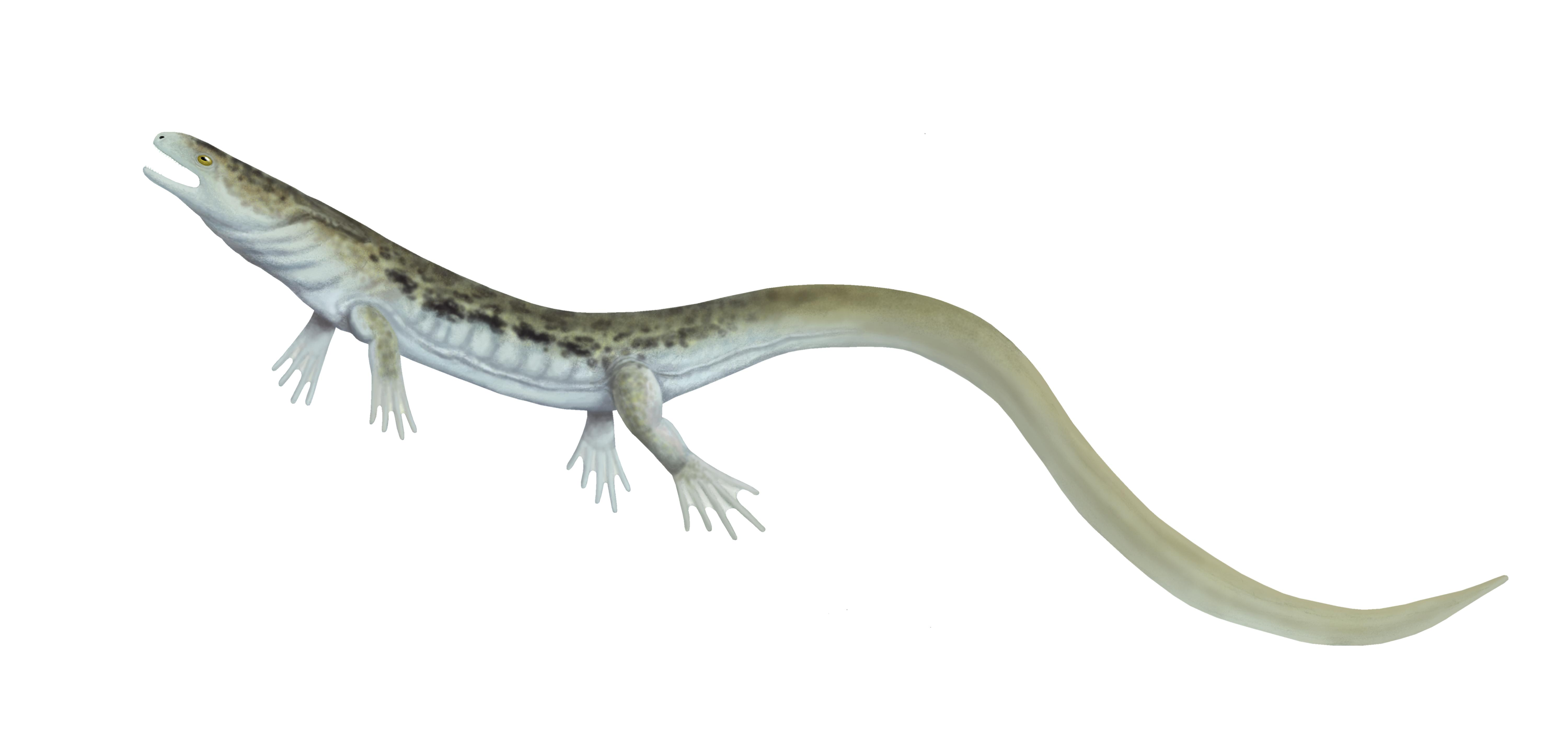 Life restoration of Diceratosaurus brevirostris. Head based on figure 22 of "A census of the determinable genera of the Stegocephalia" by E. C. Case. Transactions, American Philosophical Society 35(4). Body based on figure 6 of "The Diamond Coal Mine of Linton, Ohio, and its Pennsylvanian-Age vertebrates" by Robert W. Hook and Donald Baird. Journal of Vertebrate Paleontology 6(2): 174-190.